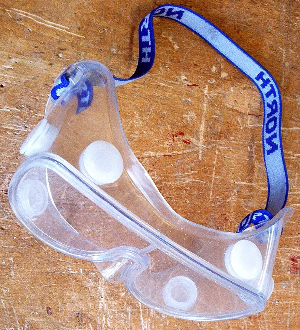 Safety googles.